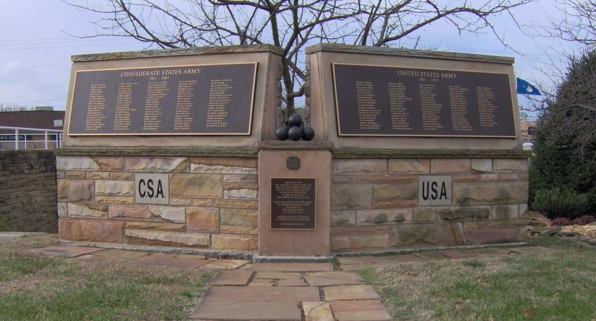 Cumberland County's Civil War memorial in Crossville, Tennessee, located in the Southeastern United States. The nearly-equal number of Cumberland Countians serving in Confederate and Union armies shows how divisive the issue was in the Cumberland region.